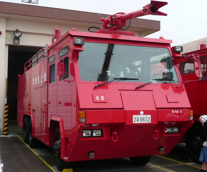 Japanese rescue and fire engine